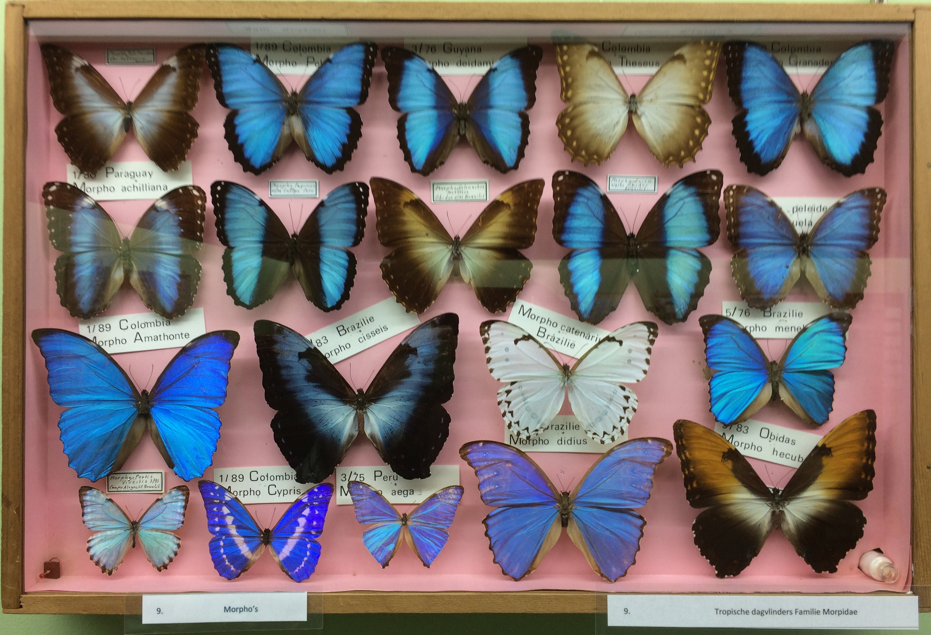 Collection Morphos at Passiflorahoeve